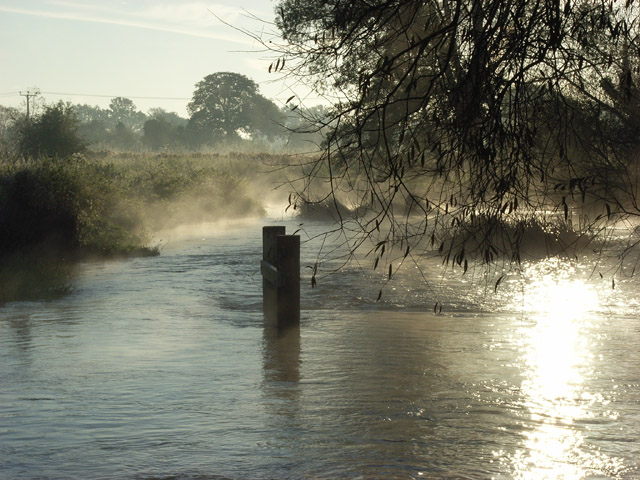 St Patrick's Stream A backwater of the Thames, part of the Loddon 'delta'.